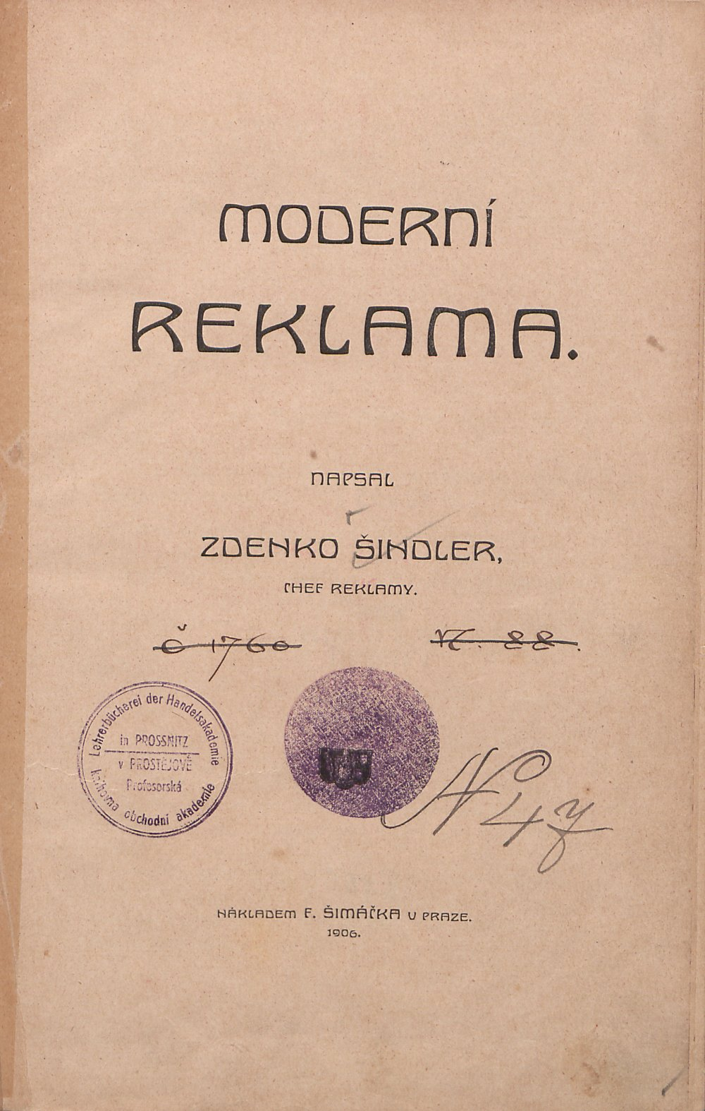 Titel page of the book Moderní reklama by Zdenko Šindler